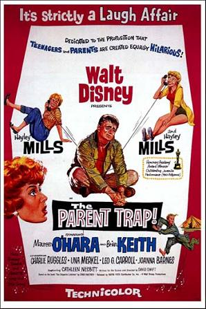 Theatrical poster for the film The Parent Trap (1961 film)